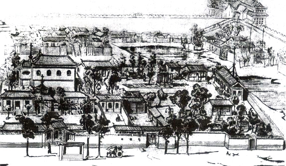 Russian Orthodox Mission in Beijing